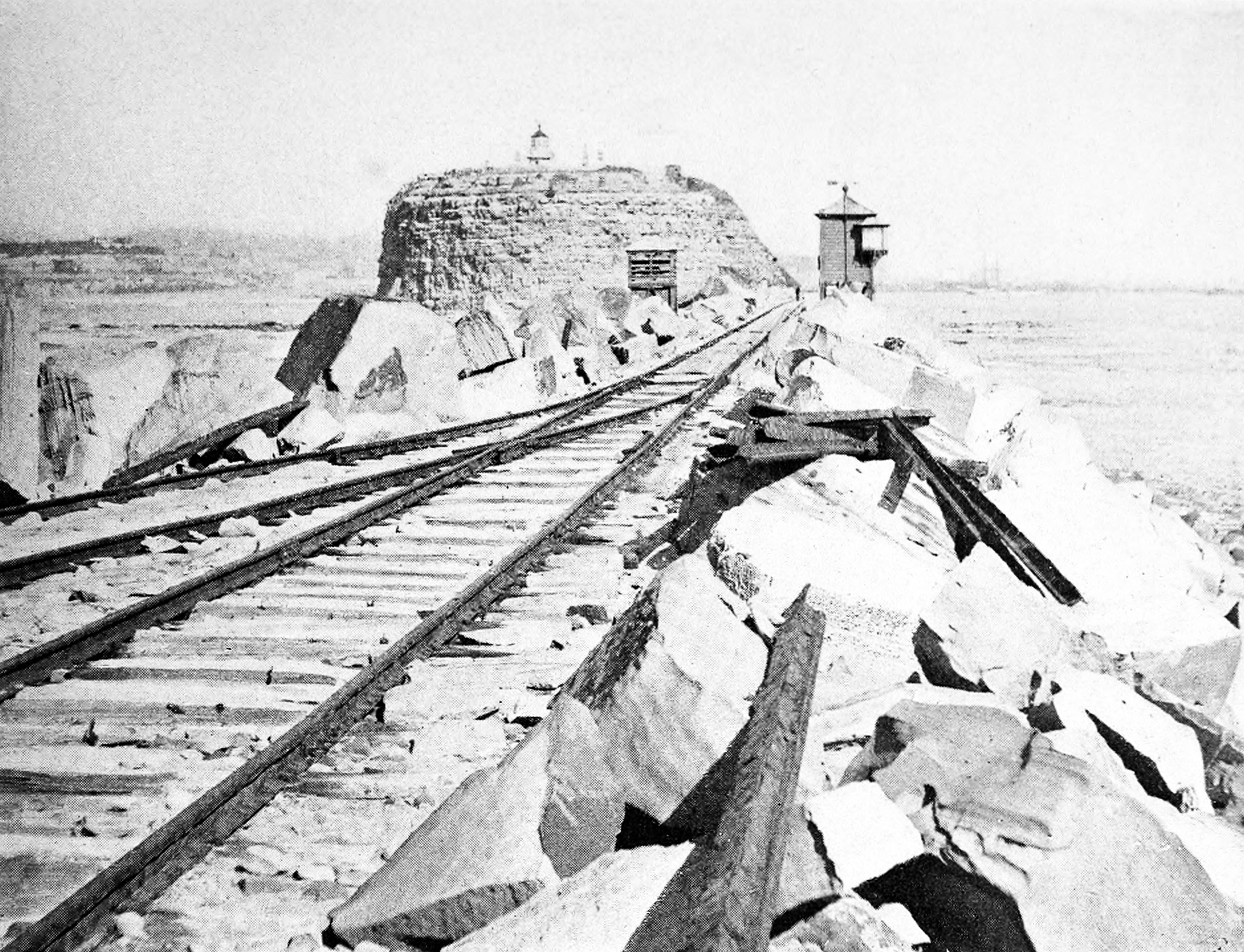 Nobbys Head, Newcastle, New South Wales, Australia. Identifier: cassiersmagazi2719041newy Title: Cassier's magazine Year: 1891 (1890s) Authors: Subjects: Engineering Publisher: New York Cassier Magazine Co. Text Appearing Before Image: AN AUSTRALIAN COAL CITY 349 Text Appearing After Image: NOBBY S, ORIGINALLY AN ISLAND AT THE ENTRANCE TO THE PORT OF NEWCASTLE, BUT NOW CON-NECTED WITH THE MAINLAND BY A BREAKWATER, AS SHOWN in number, together with Mr. Clarke,the supercargo, attempted to reach PortJackson in the ships longboat, whichwas saved from the wreck. In this, how-ever, they failed, the boat being drivenashore near Cape Howe and lost. Thelittle party, led by Clarke, then set offfor the settlement at Sydney by land.The journey proved a difficult and ad-venturous undertaking, and only threeof the seventeen succeeded in reachingPort Jackson, the remainder either dy-ing on the way or being killed by thenatives. On the way along the coastClarke and his companions discovereda great deal of coal, and brought speci-mens of it to the settlement. Lieuten-ant-Colonel Collins, whose Account ofNew South Wales is one of the mostreliable histories of the beginning ofAustralia, writing in regard to this mat-ter, says:— Mr. Clarke, supercargo of the shipSydney Cove, having mentio